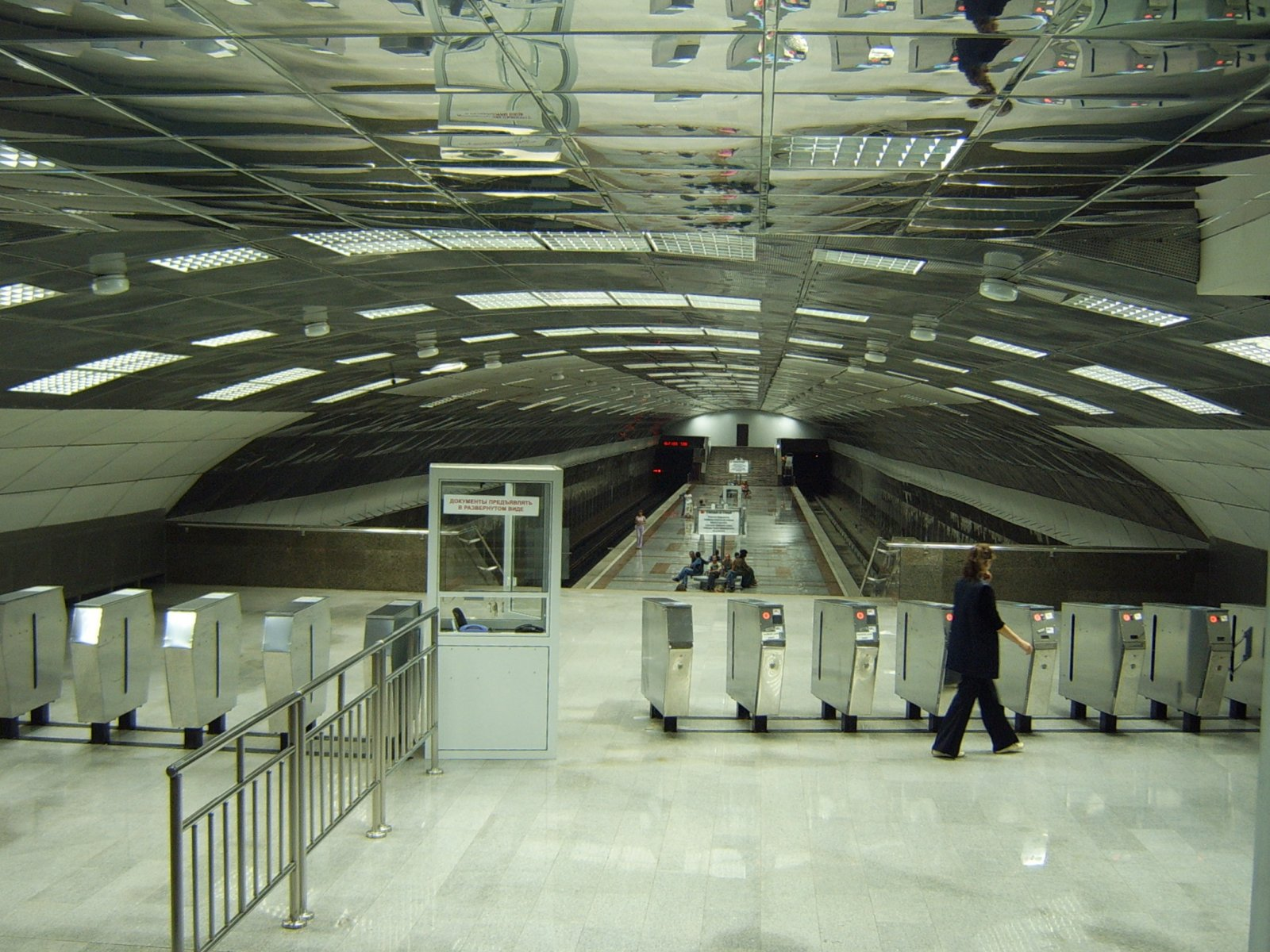 Metro Novosibirsk, Station Beryozovaya Roscha, July 2005